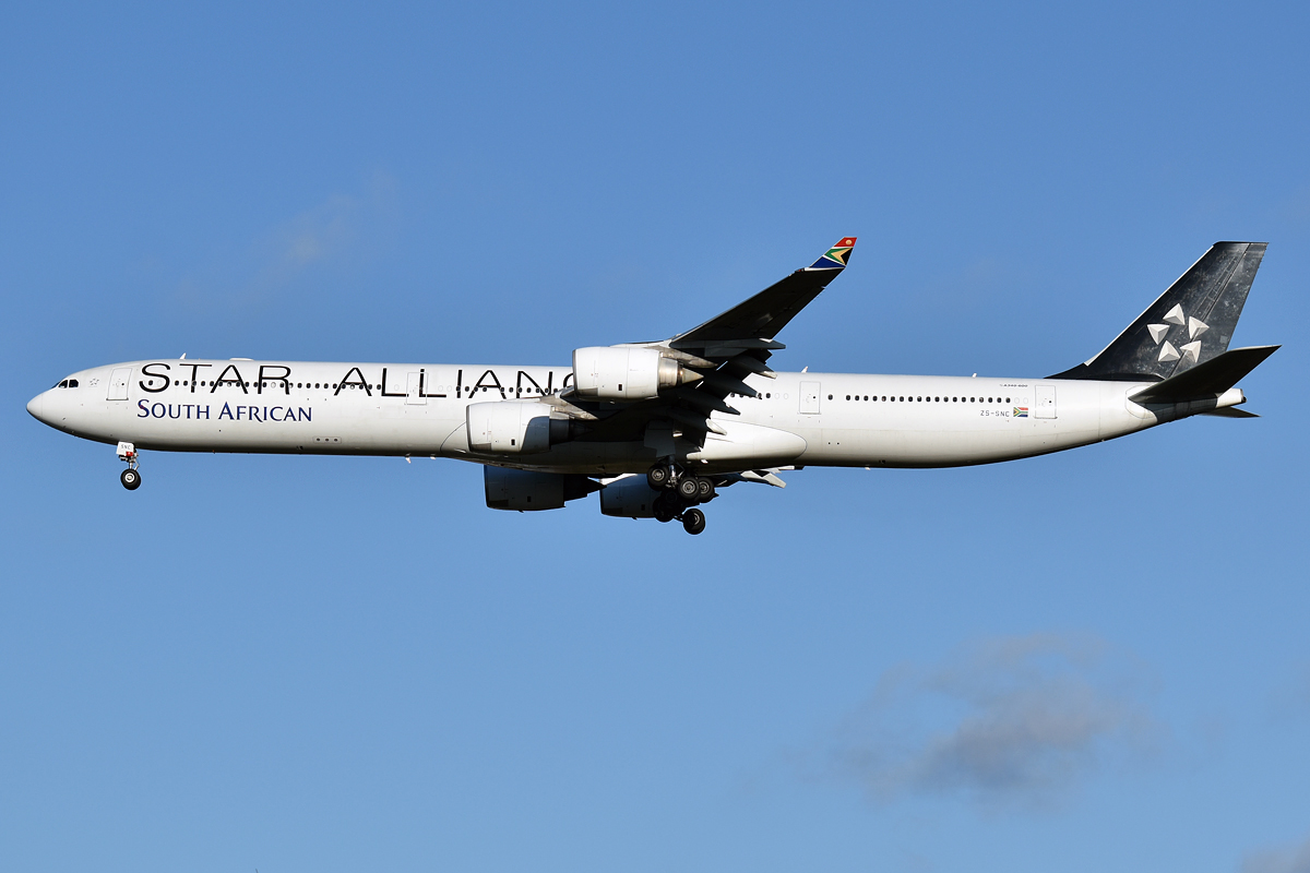 South African Airways, ZS-SNC, Airbus A340-642